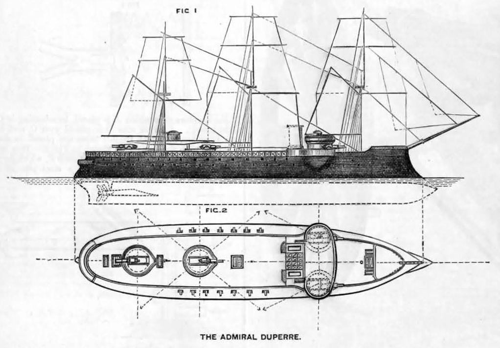 This drawing of the French battleship Amiral Duperre´ was featured in the periodical The Engineer May 5, 1882 on page 317 in connection with a feature about an exhibition in London, where a model of the ship was one of the exhibits.